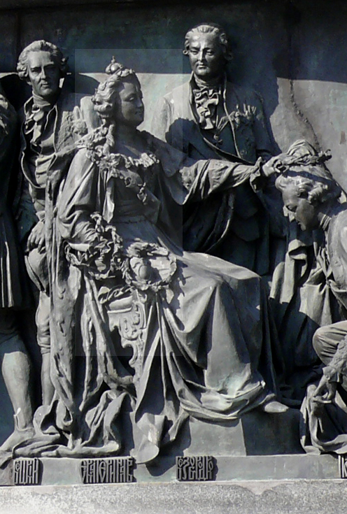 Catherine II of Russia on the Monument «Millennium of Russia» in Veliky Novgorod